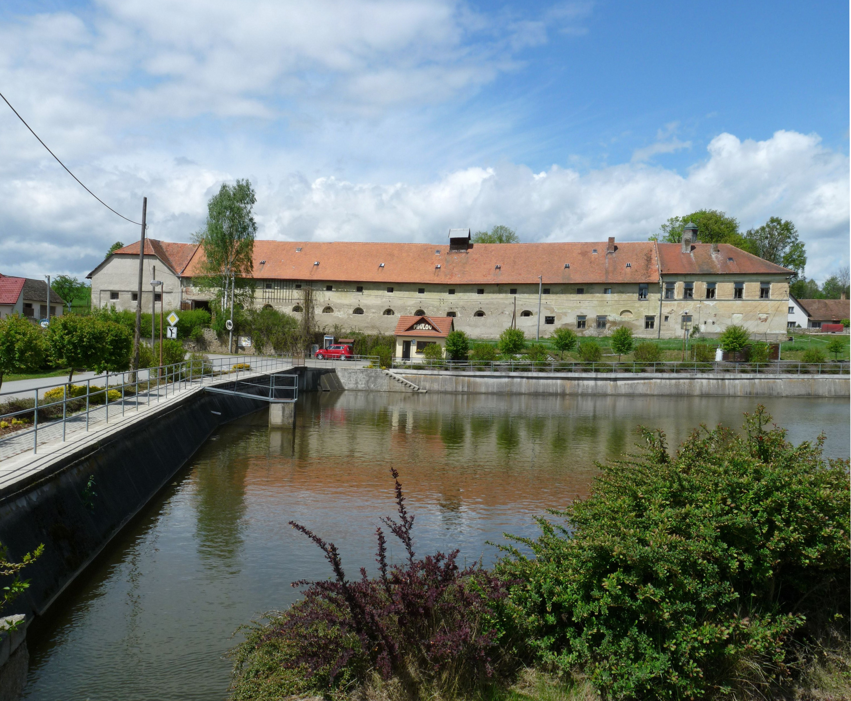 Former chateau in the municipality of Pavlov, Pelhřimov District, Vysočina Region, Czech Republic.